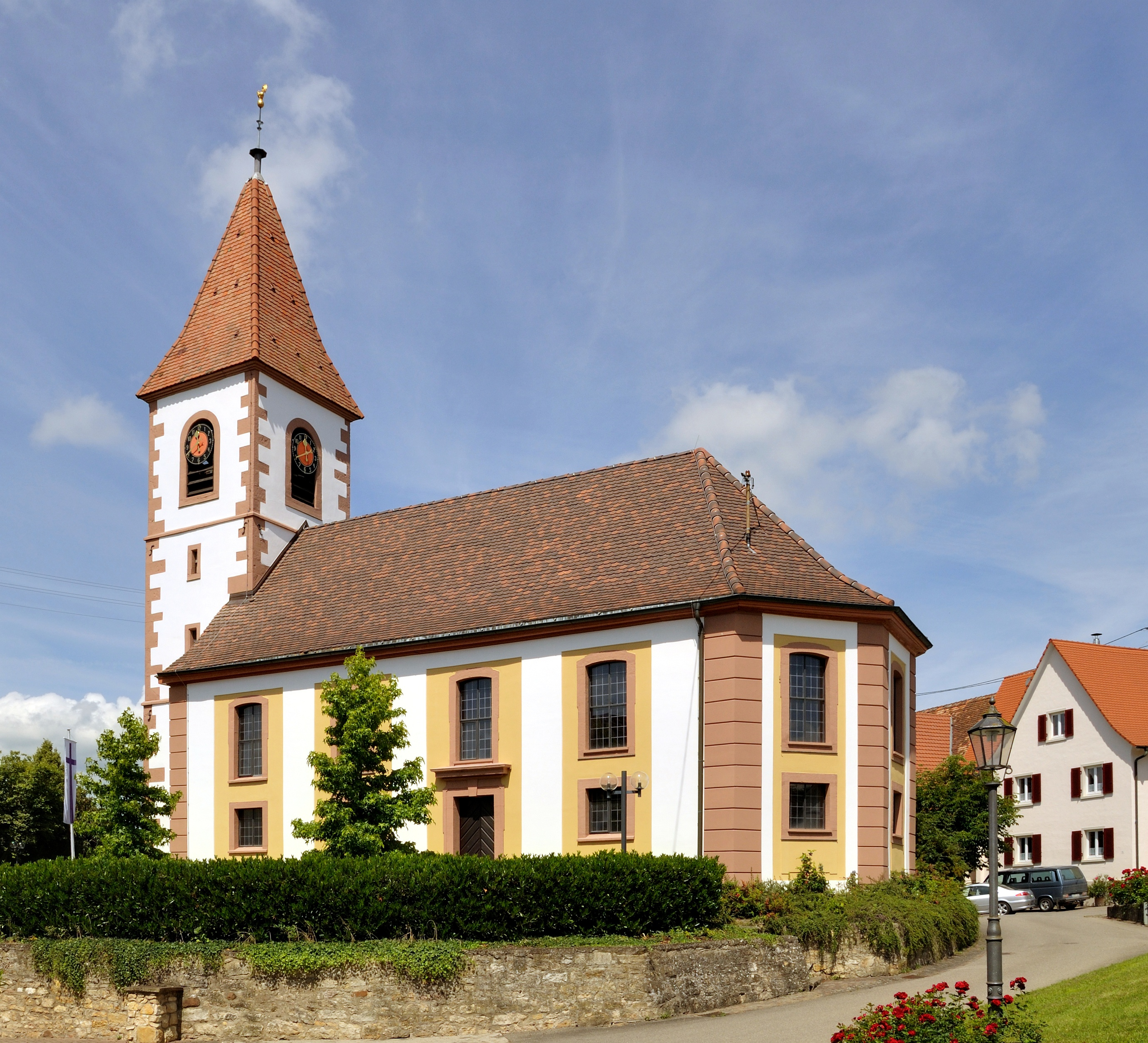 Wintersweiler: Protestant Church